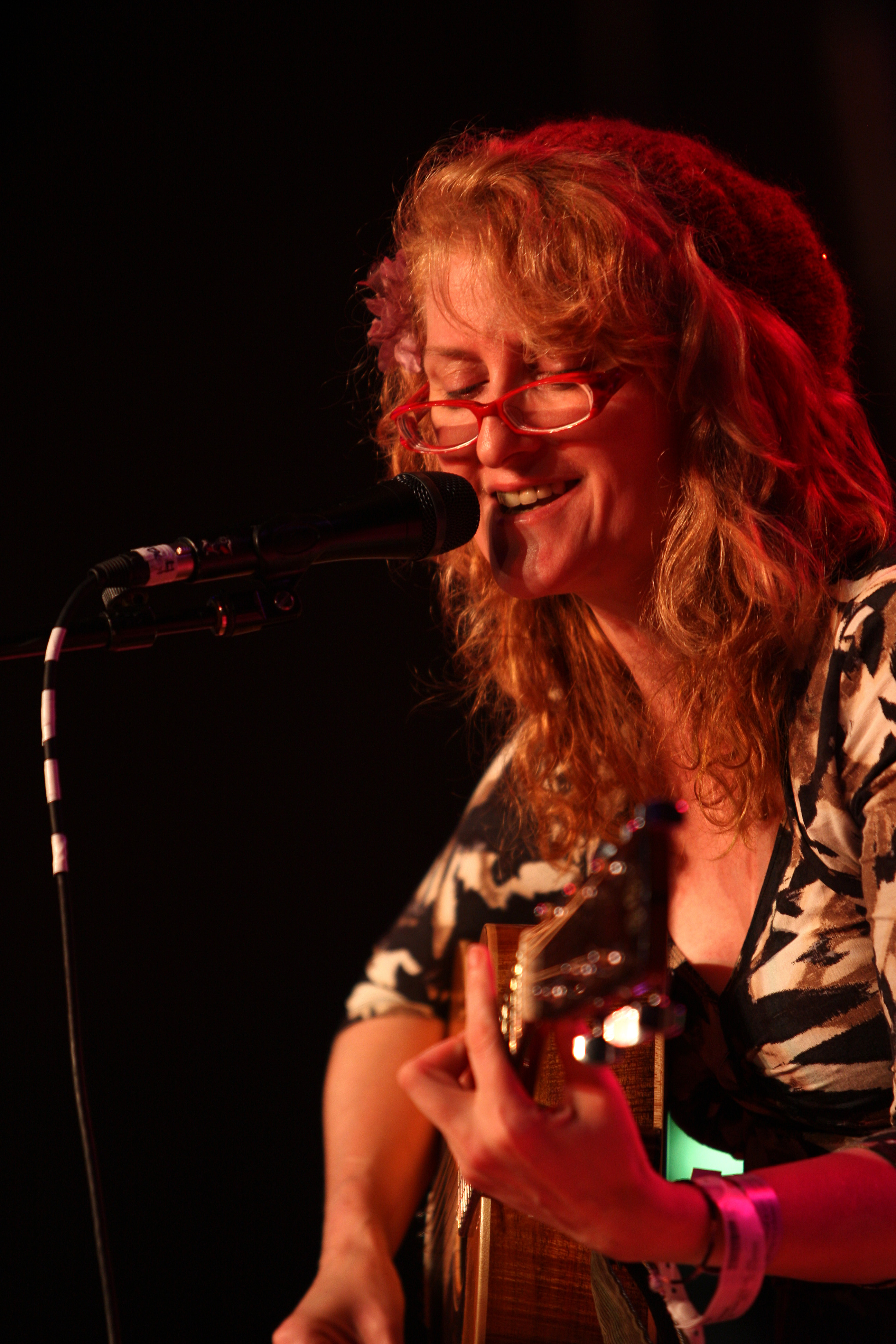 Scotish folk singer Eddi Reader in concert at the National Folk Festival, Canberra, Australia - Easter weekend 2008